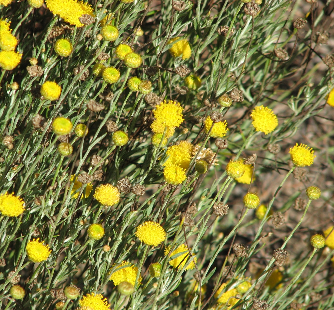 Rutidosis helichrysoides (cultivated, labelled), Royal Botanic Gardens, Melbourne, Australia